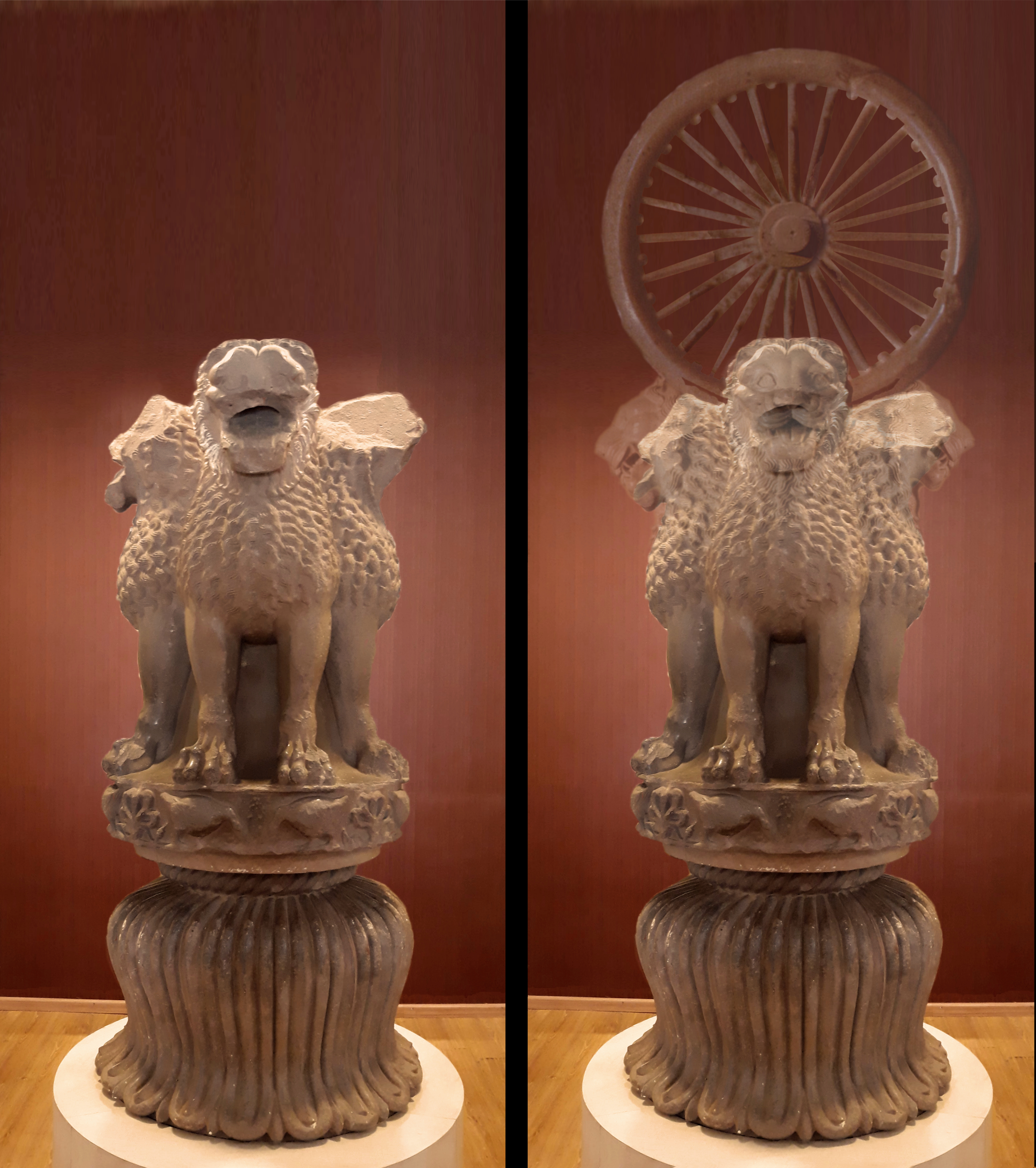 Sanchi Ashoka Capitol reconstitution